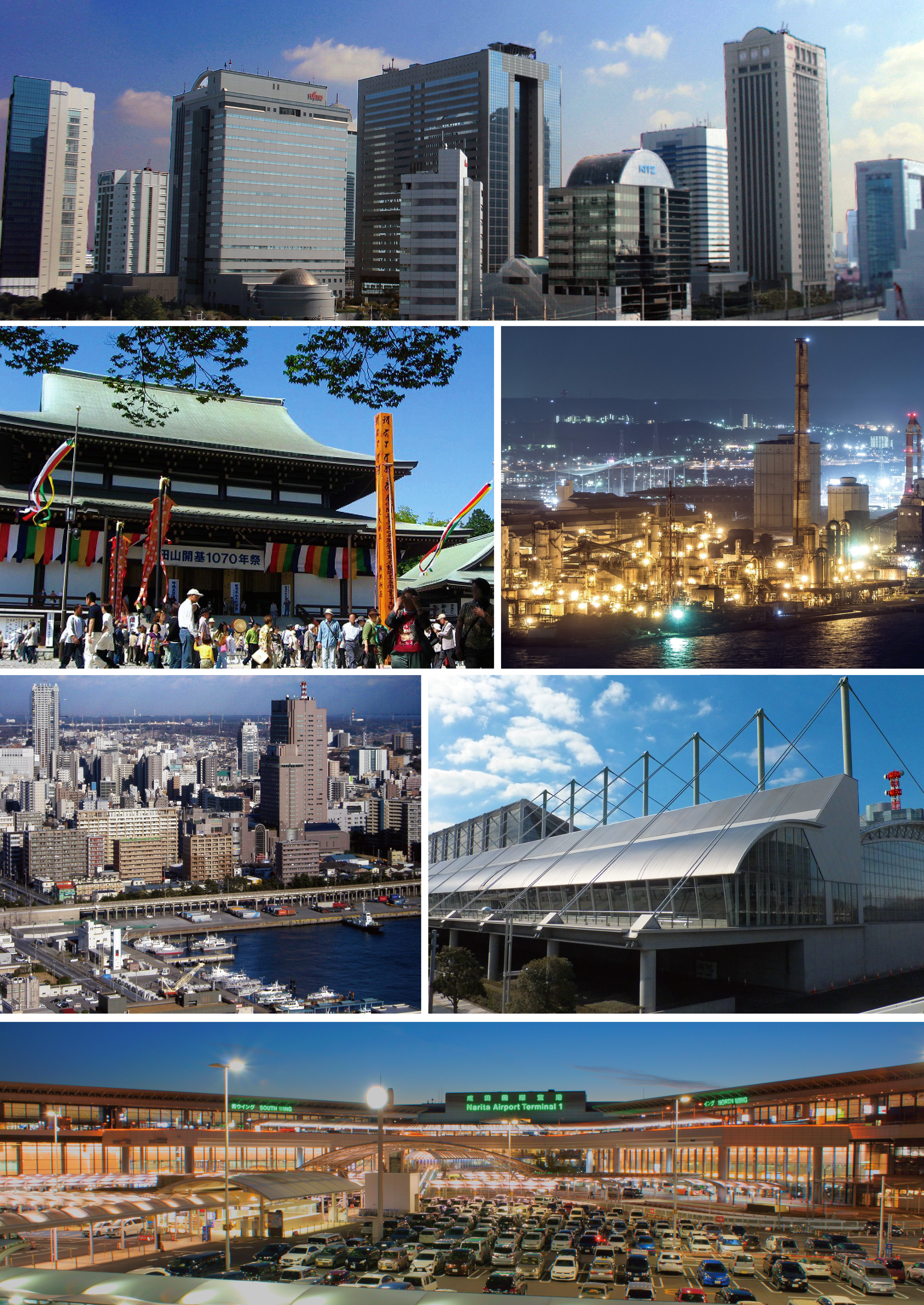 Photo montage of Chiba, Japan